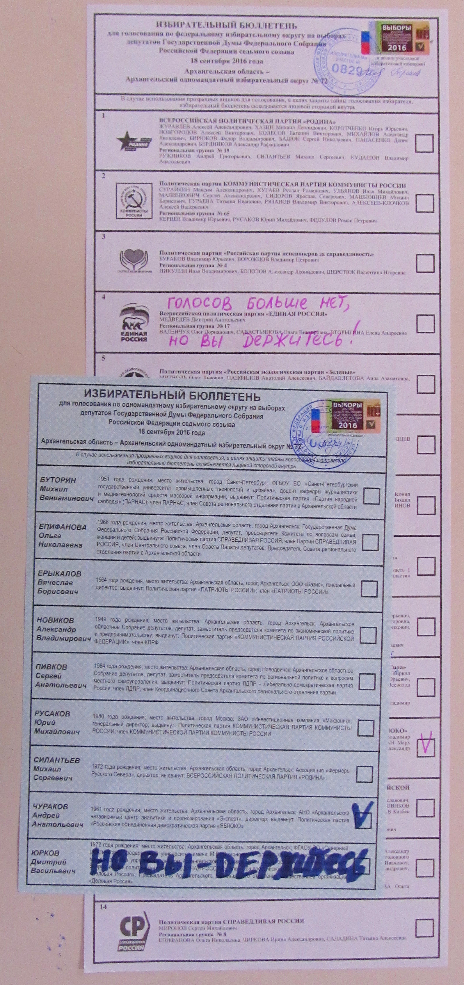 Russian legislative election, 2016